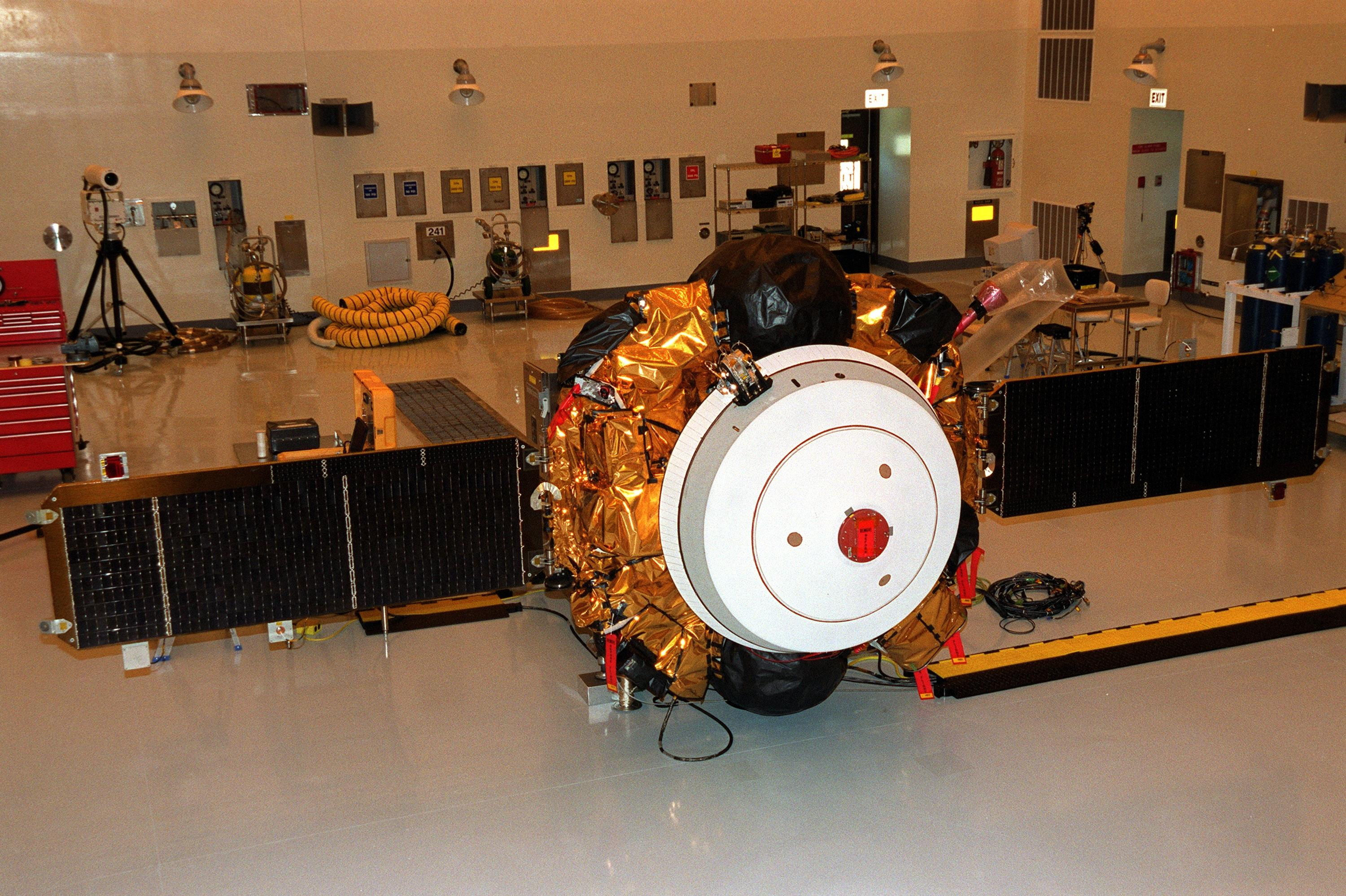 In the Payload Hazardous Servicing Facility, both solar arrays on the Genesis spacecraft are deployed. Genesis is designed to collect samples of solar wind particles and return them to Earth so that scientists can study the exact composition of the Sun and probe the solar system’s origin. The white object on the end in front of the arrays is the Sample Return Canister backshell, inside of which are the collector arrays. Genesis is scheduled to be launched on a Delta II Lite launch vehicle from Complex 17-A, Cape Canaveral Air Force Station, July 30, at 12:36 p.m. EDT.